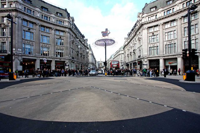 Oxford Circus - New crossing